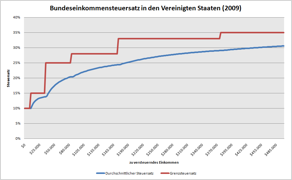 Chart showing marginal and average income tax rates in the United States as of FY07